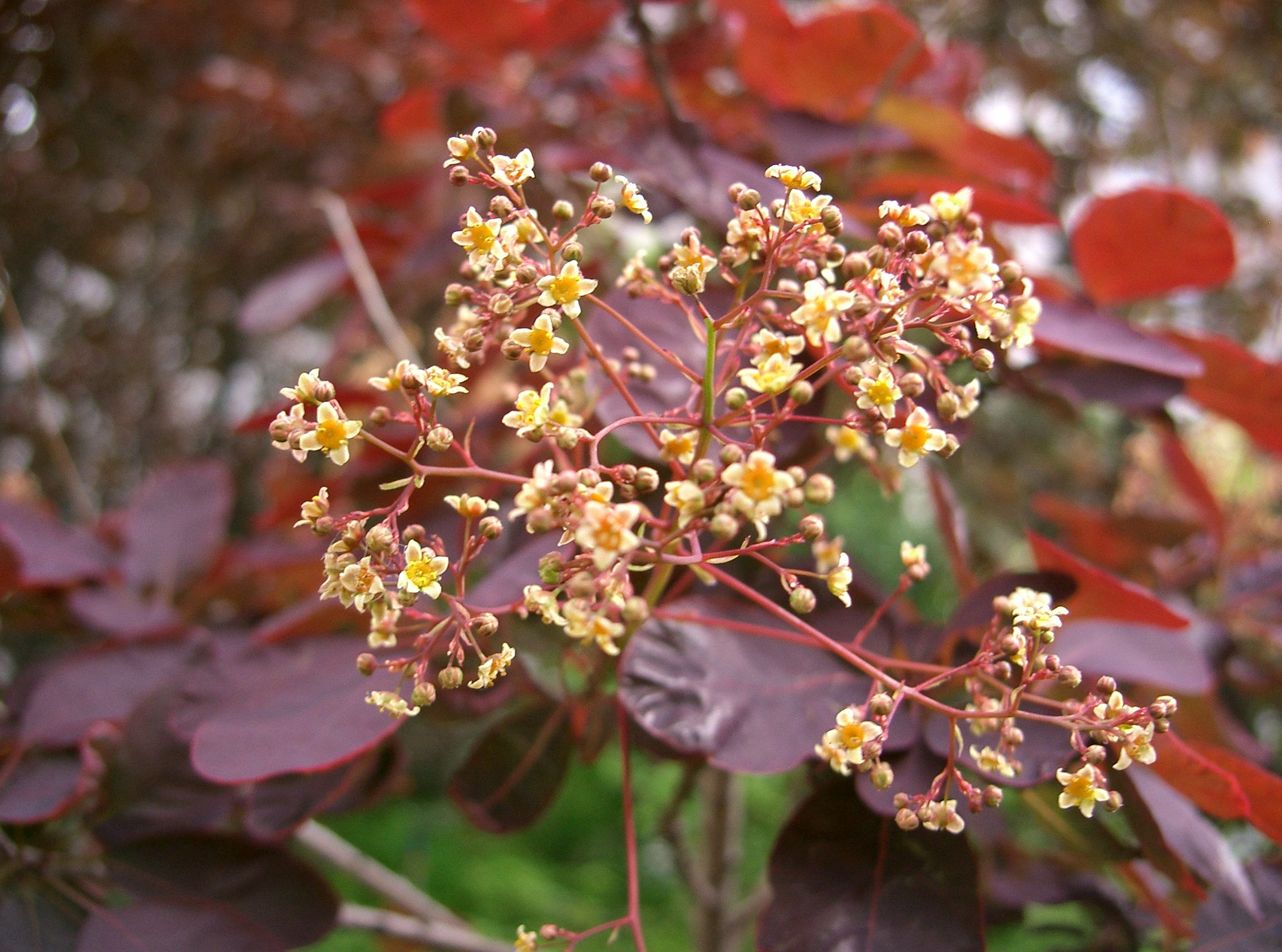 Cotinus coggygria 'Royal Purple'